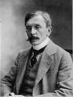 Dutch poet P.C. Boutens.